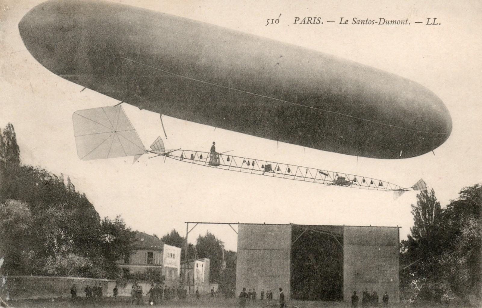 Airship Santos Dumont (Paris - France) in 1904 - vintage postcard - personal collection